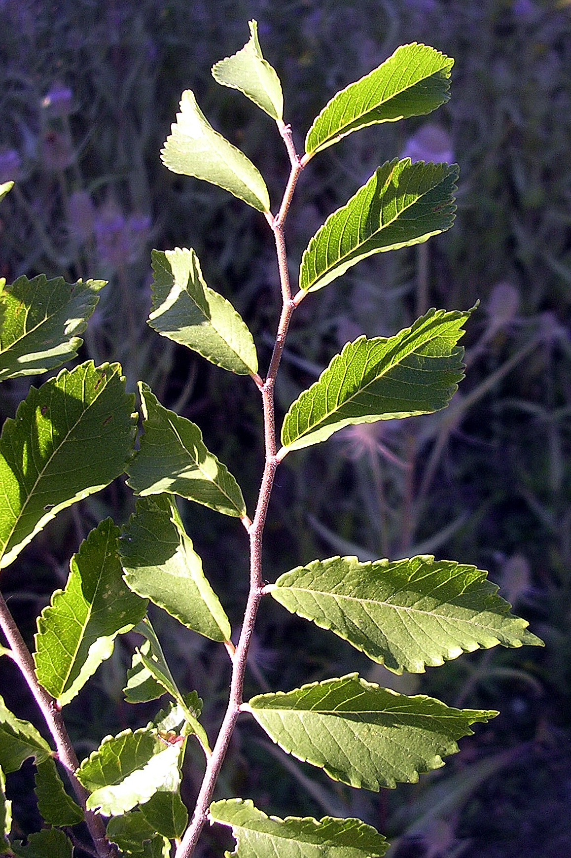 Photo taken by author, July 2006